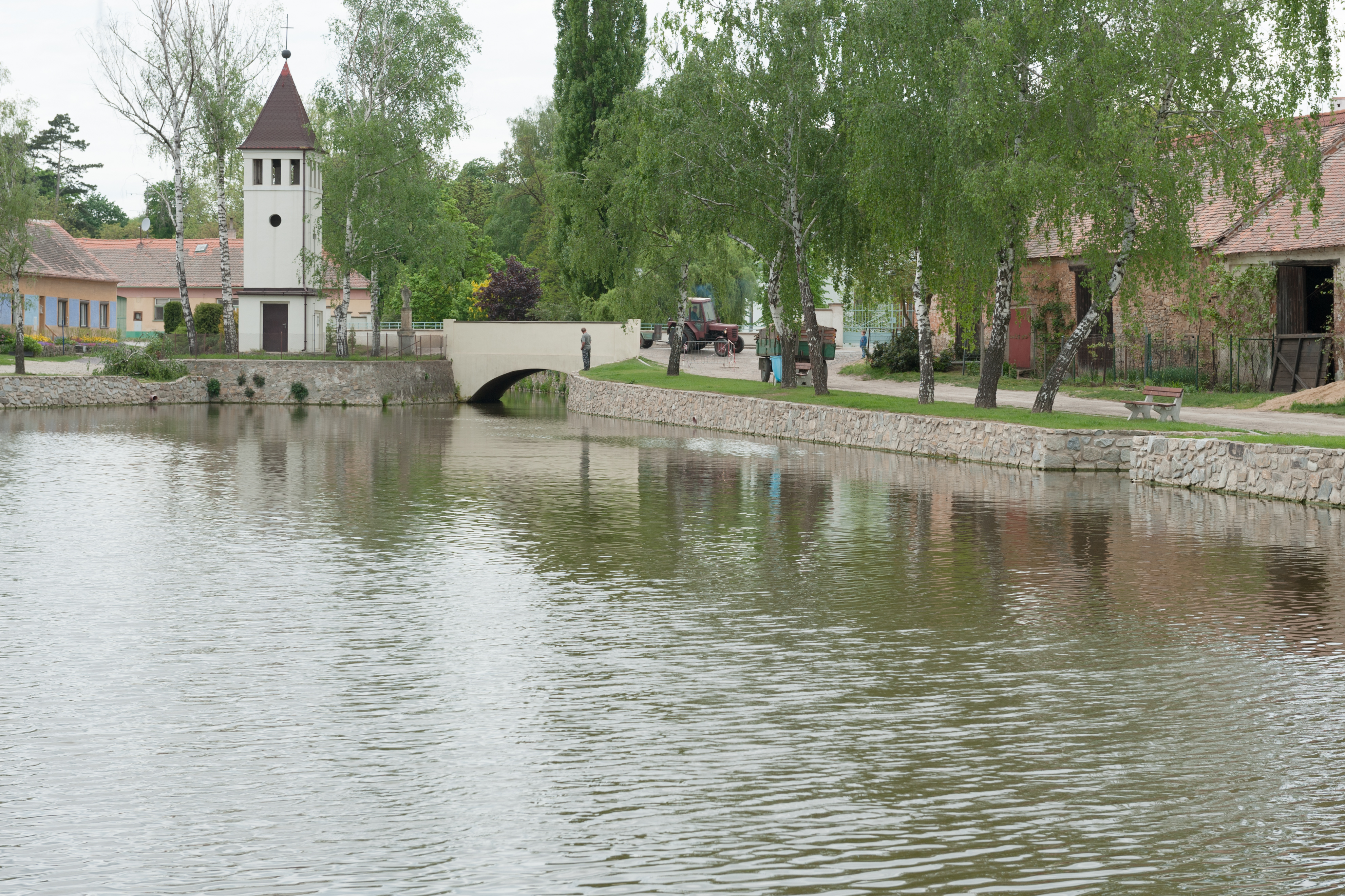 Wikitown Hustopeče: Skalice